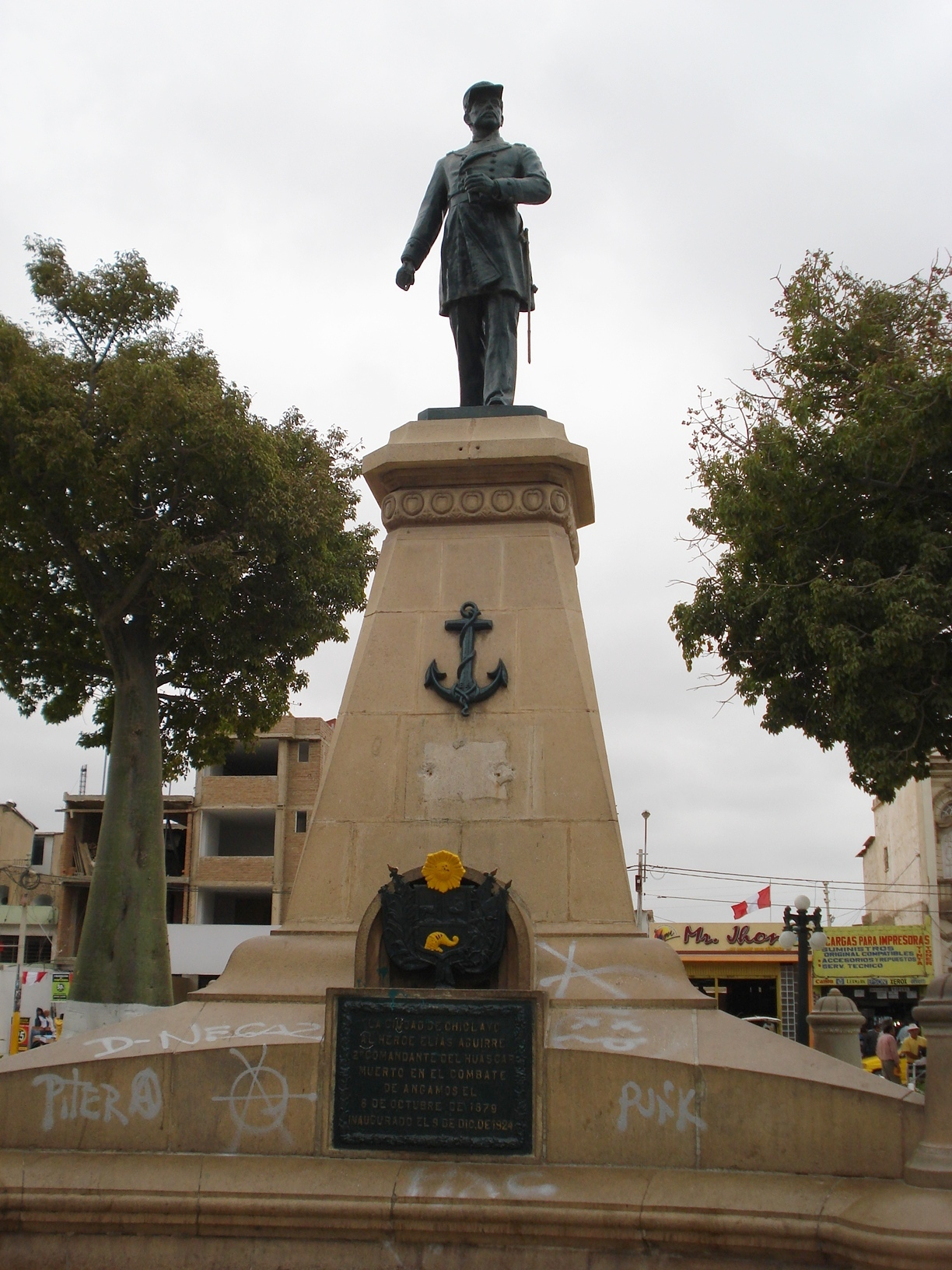 Monumento en memoria al héroe del Combate de Angamos. Chiclayo, Perú. Monument in memory of the hero of the Battle of Angamos. Chiclayo, Peru.